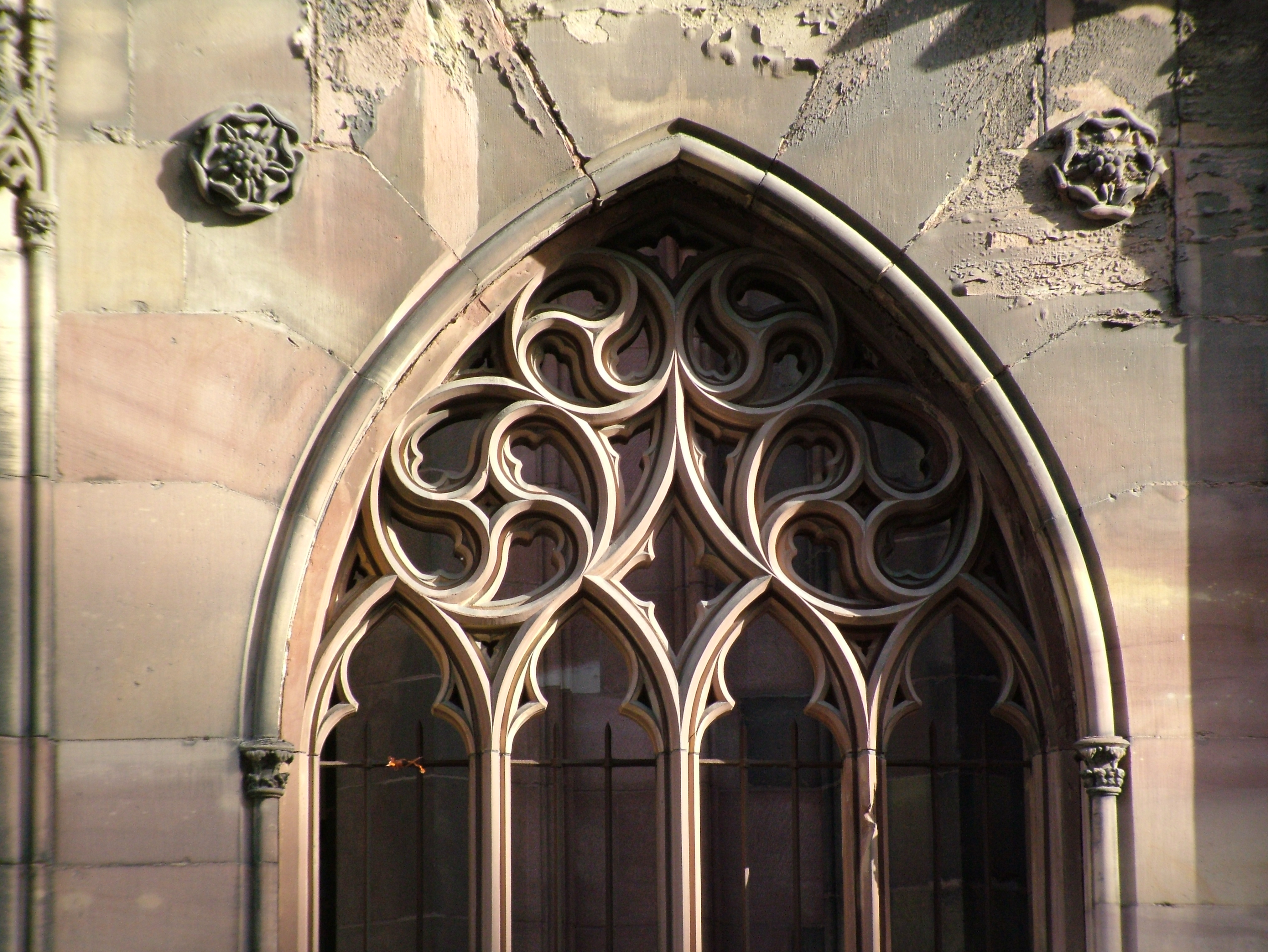 Cathedral in Strasbourg - Window